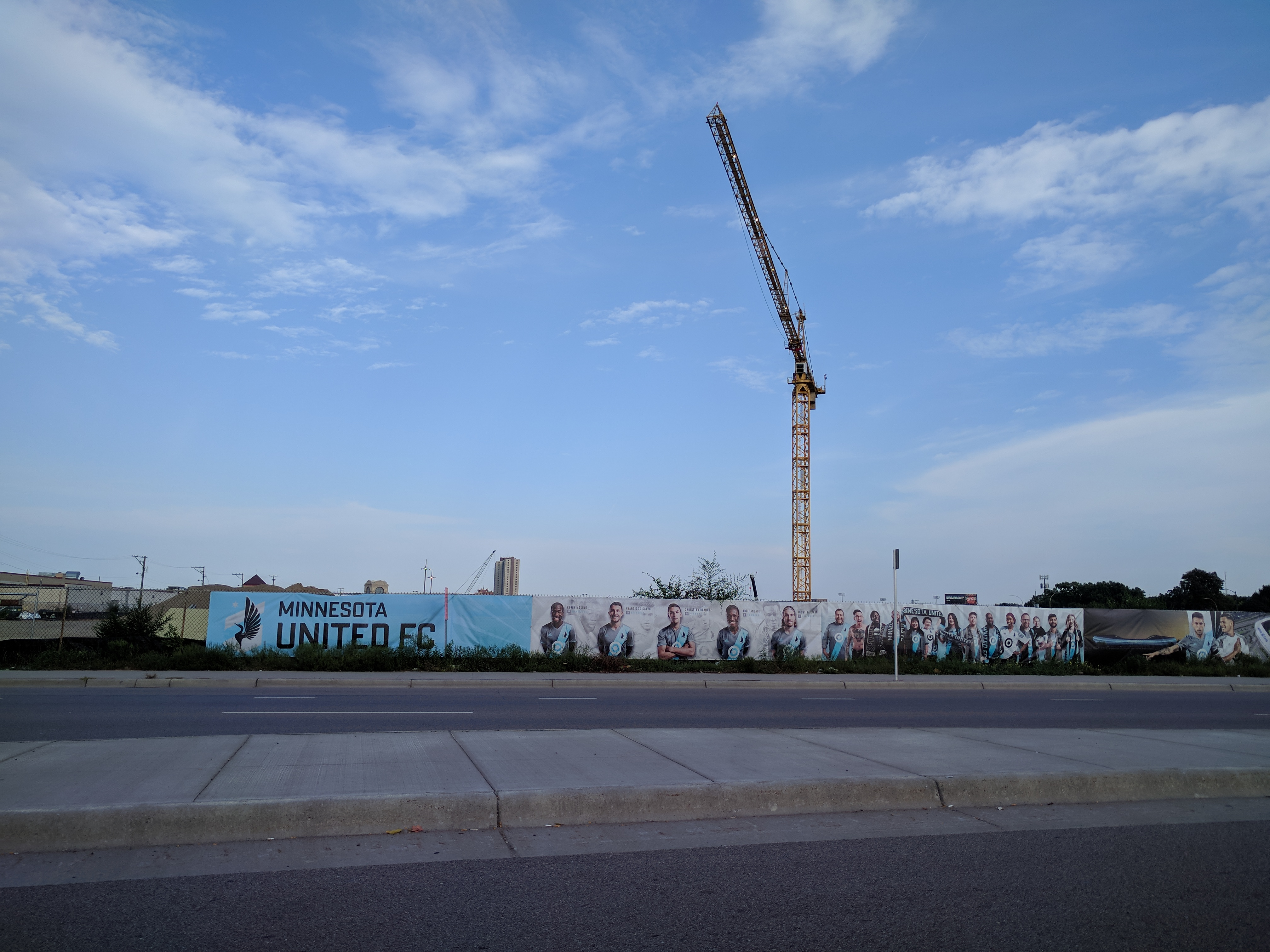 Saint Paul, Minnesota